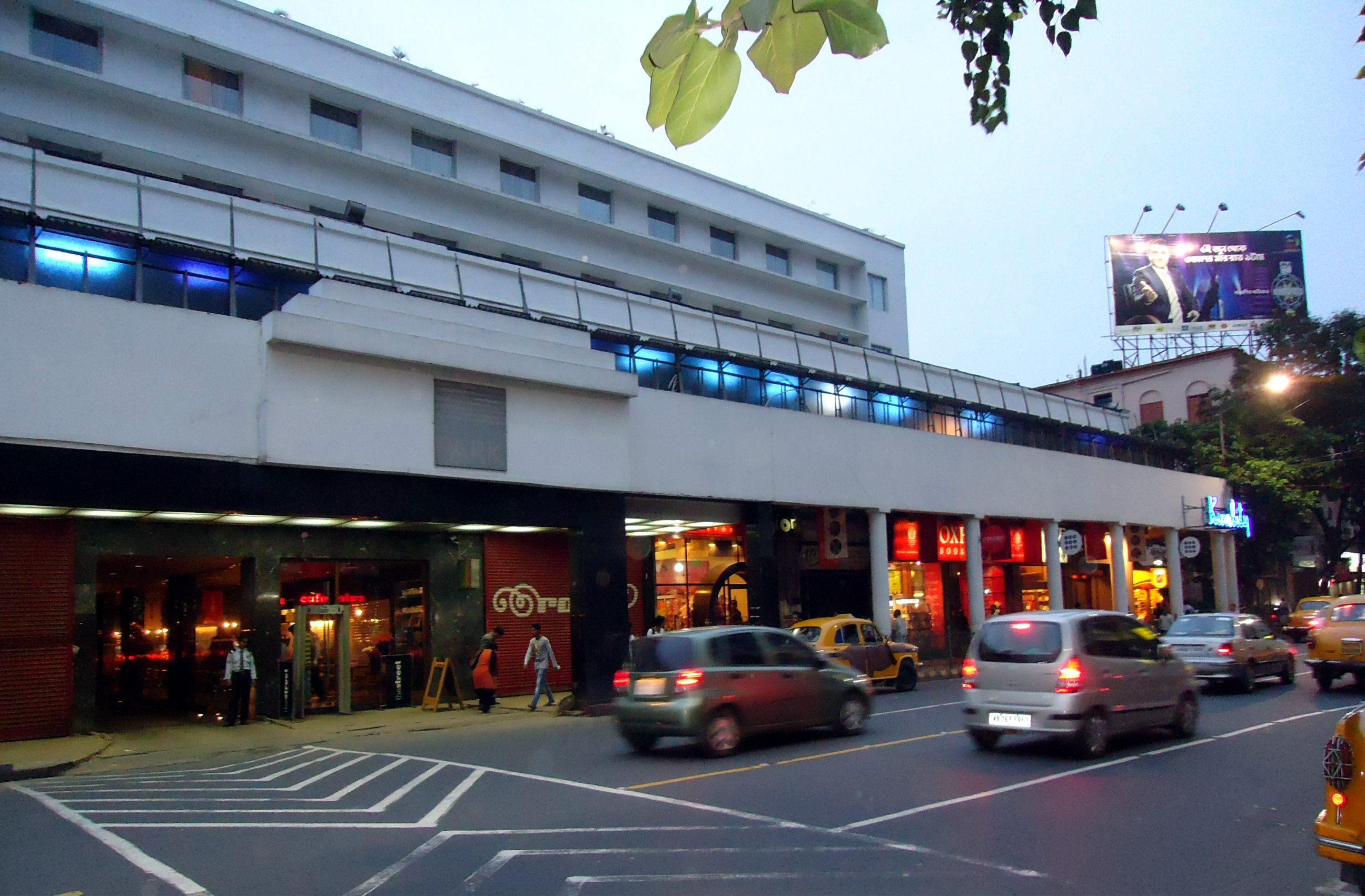 Park Hotel